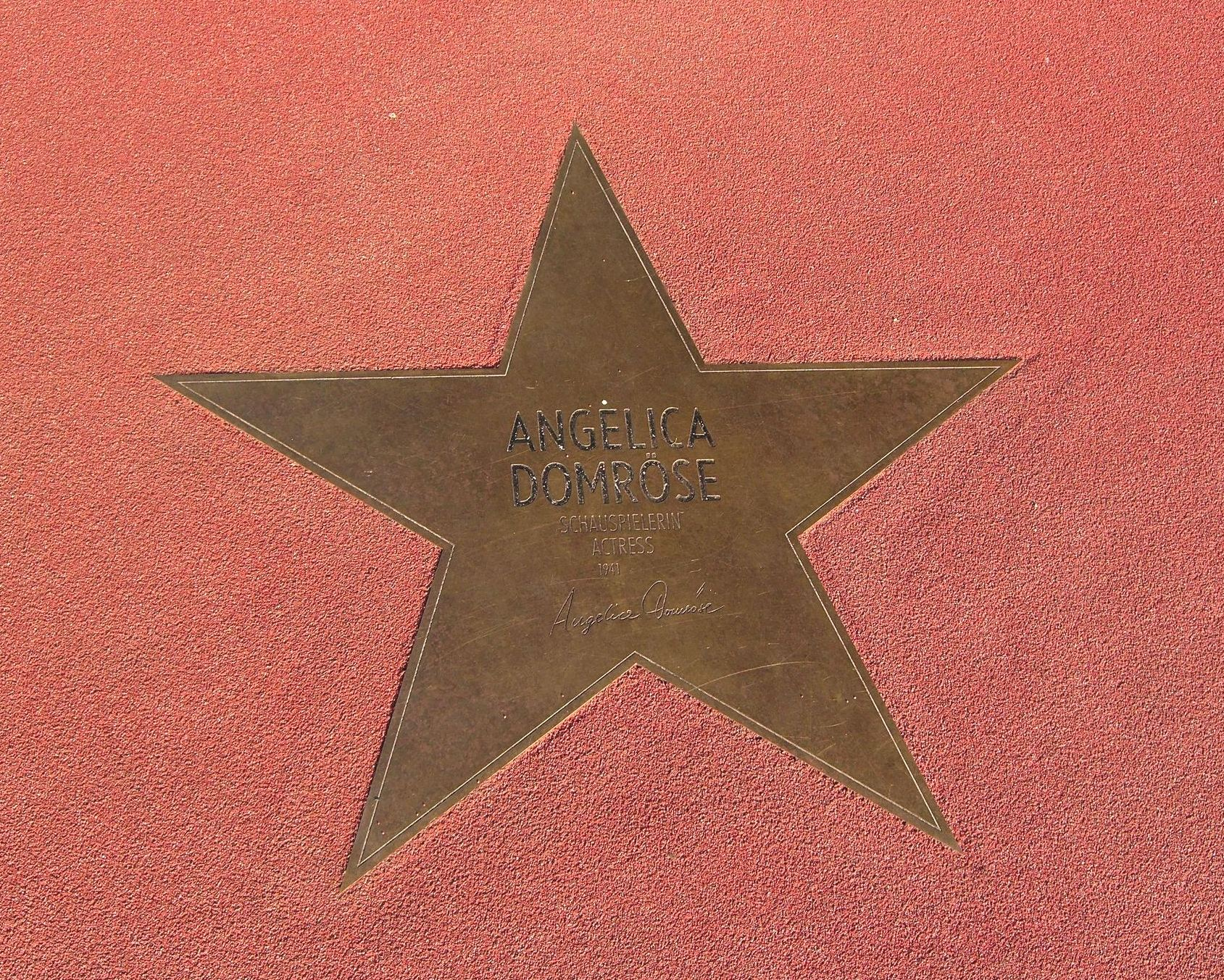 Star of Angelica Domröse at "Boulevard der Stars" in Berlin.